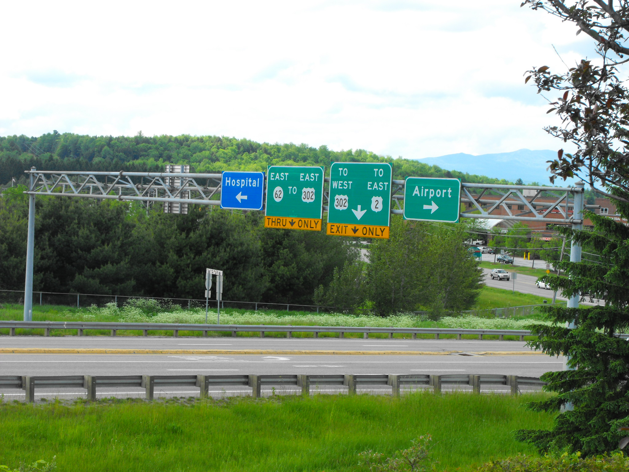 Vermont Route 62 south of Fisher Avenue before the interchange with the "Berlin State Highway" connector to U.S. Route 302 in Berlin, Vermont.